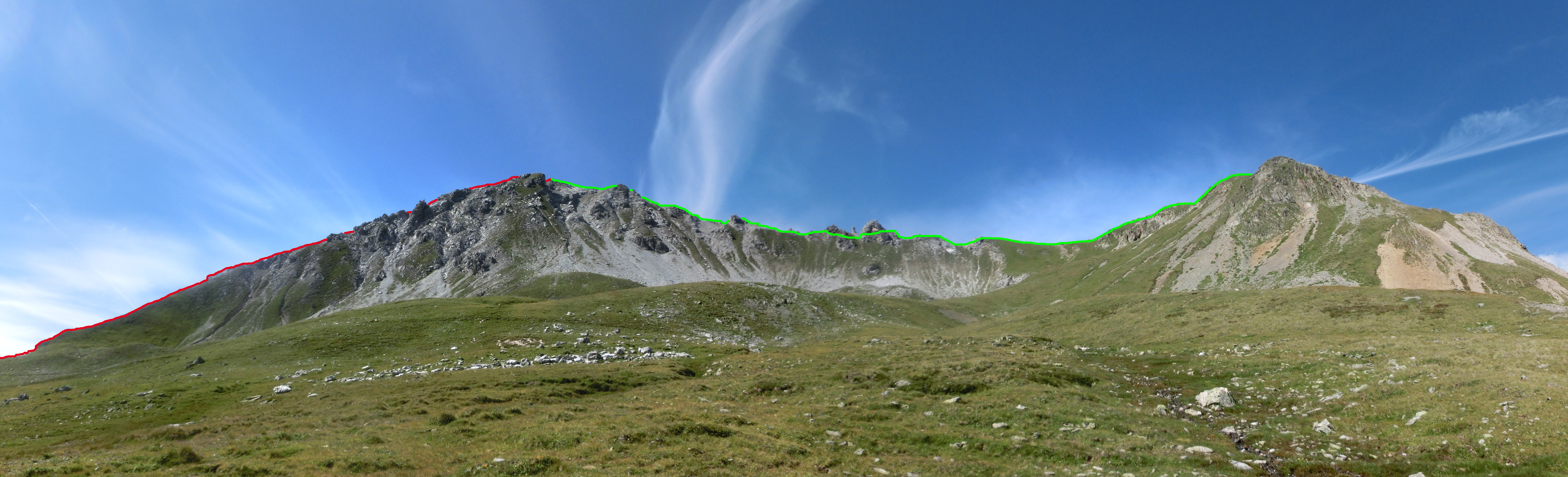 Routes to Chüpfenflue, picture taken from near Latschüelfurgga. Red from Latschüelfurgga, Green from Strela. Davos, Grison, Switzerland